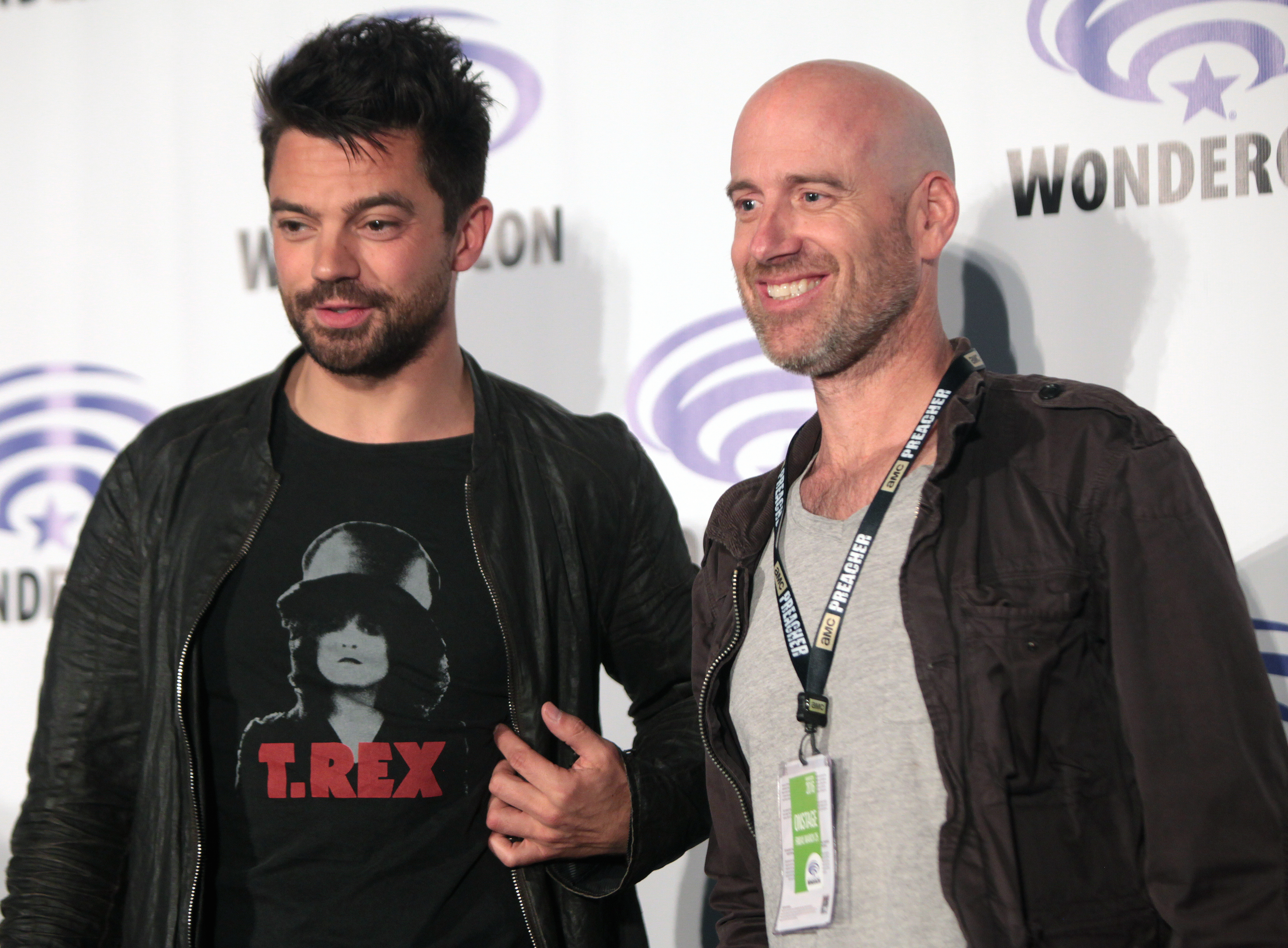 Dominic Cooper and Sam Catlin speaking at the 2016 WonderCon in Los Angeles, California.